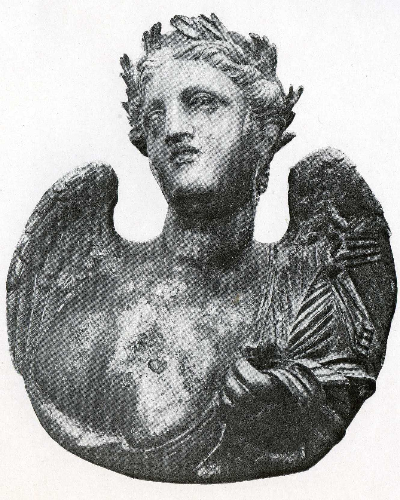 Bust of Nike from the Mahdia wreckage, Bardo National Museum, Tunisia.